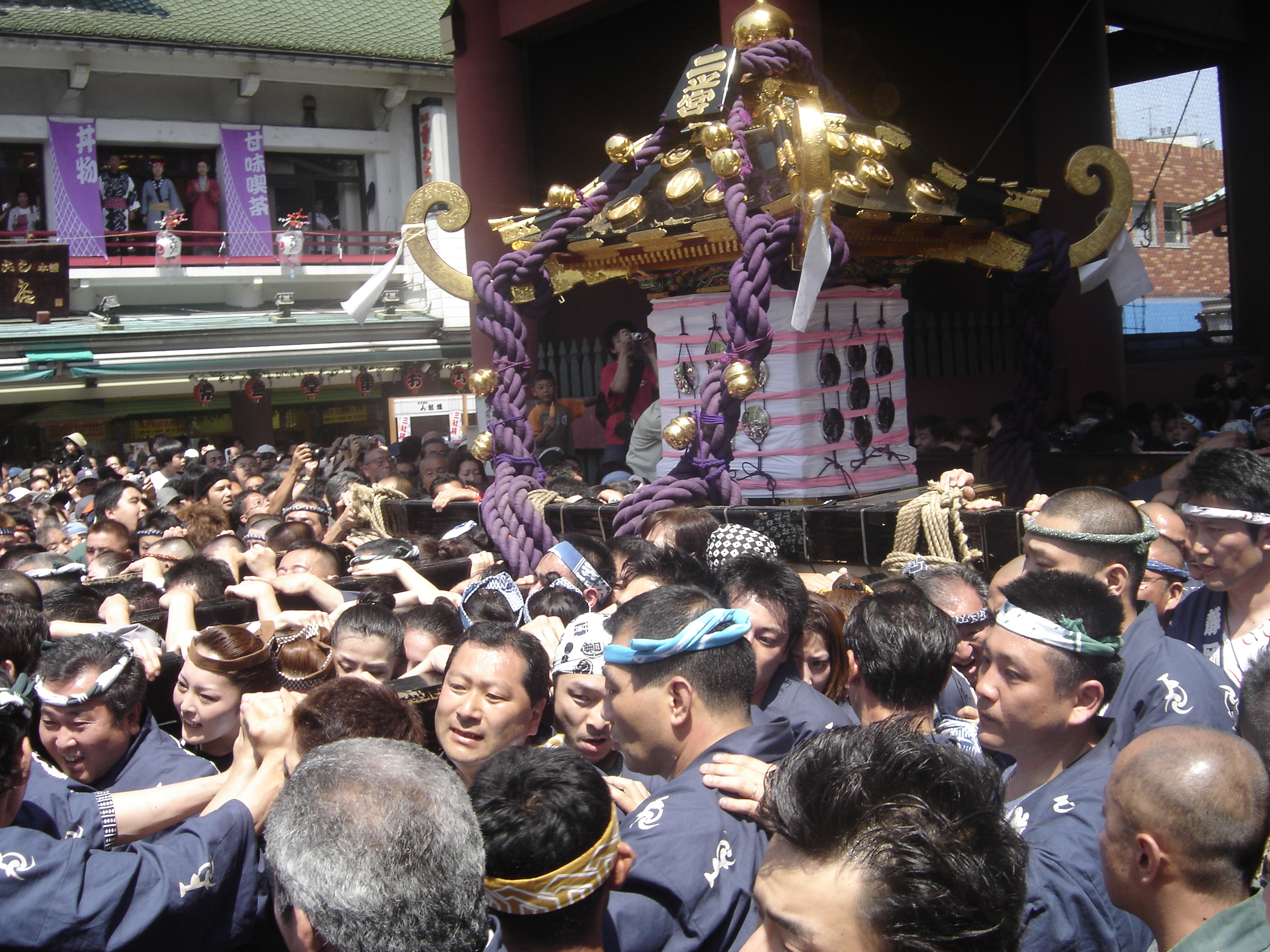 One of the three main mikoshi emerges from the Kaminarimon gate during the Sunday parade at Sanja Matsuri.